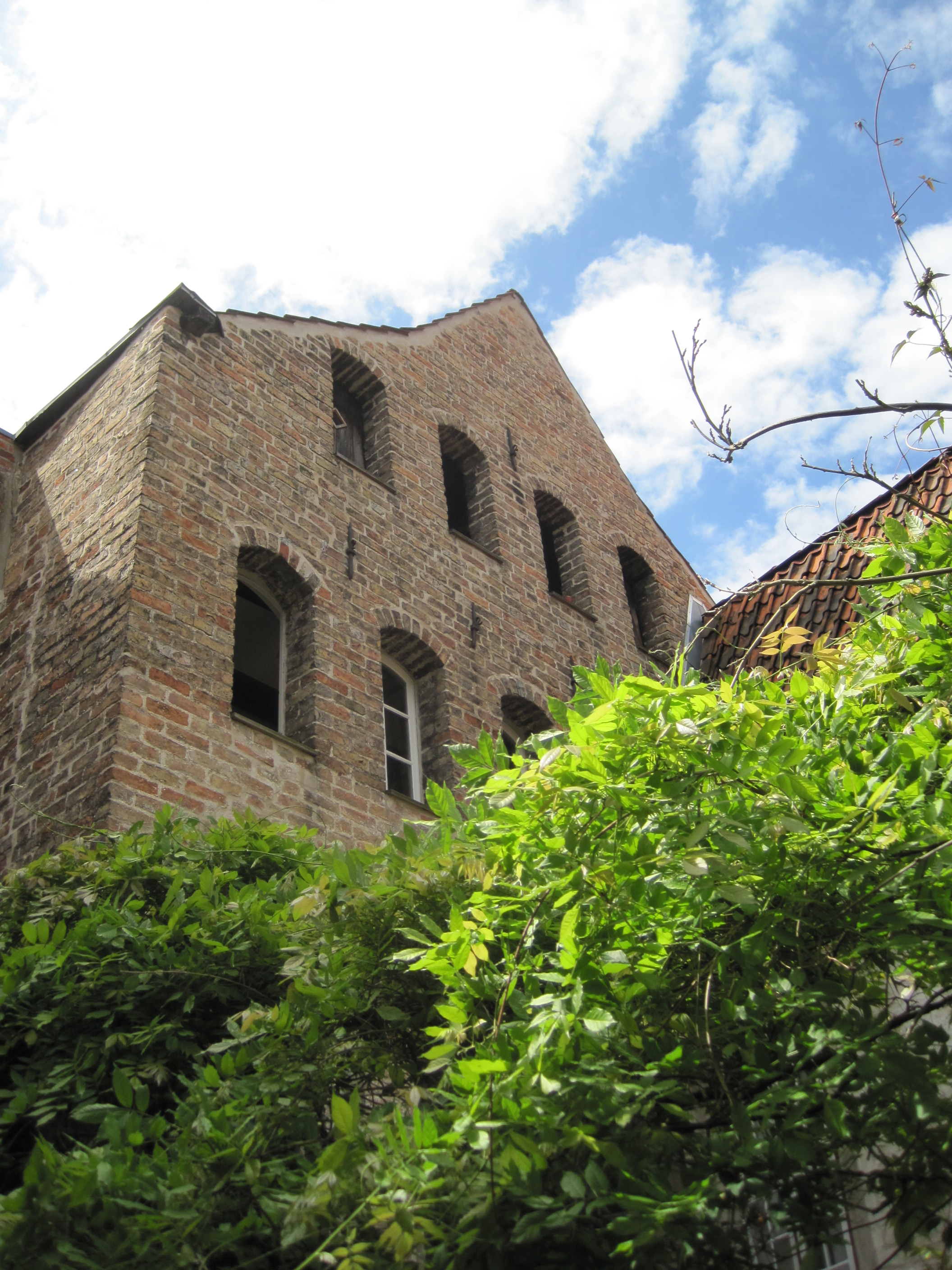 Rear facade of house Fischergrube 46 in Lübeck's old town seen from Grüner Gang (Fischergrube 44). Renaissance in bricks.